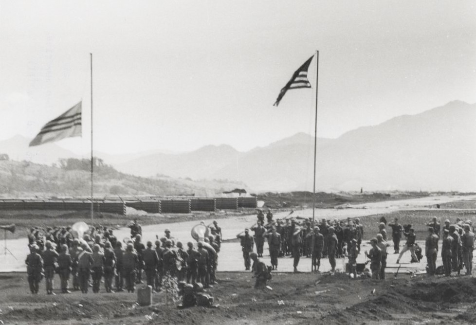 3/4 Marines memorial service at Khe Sanh Combat Base